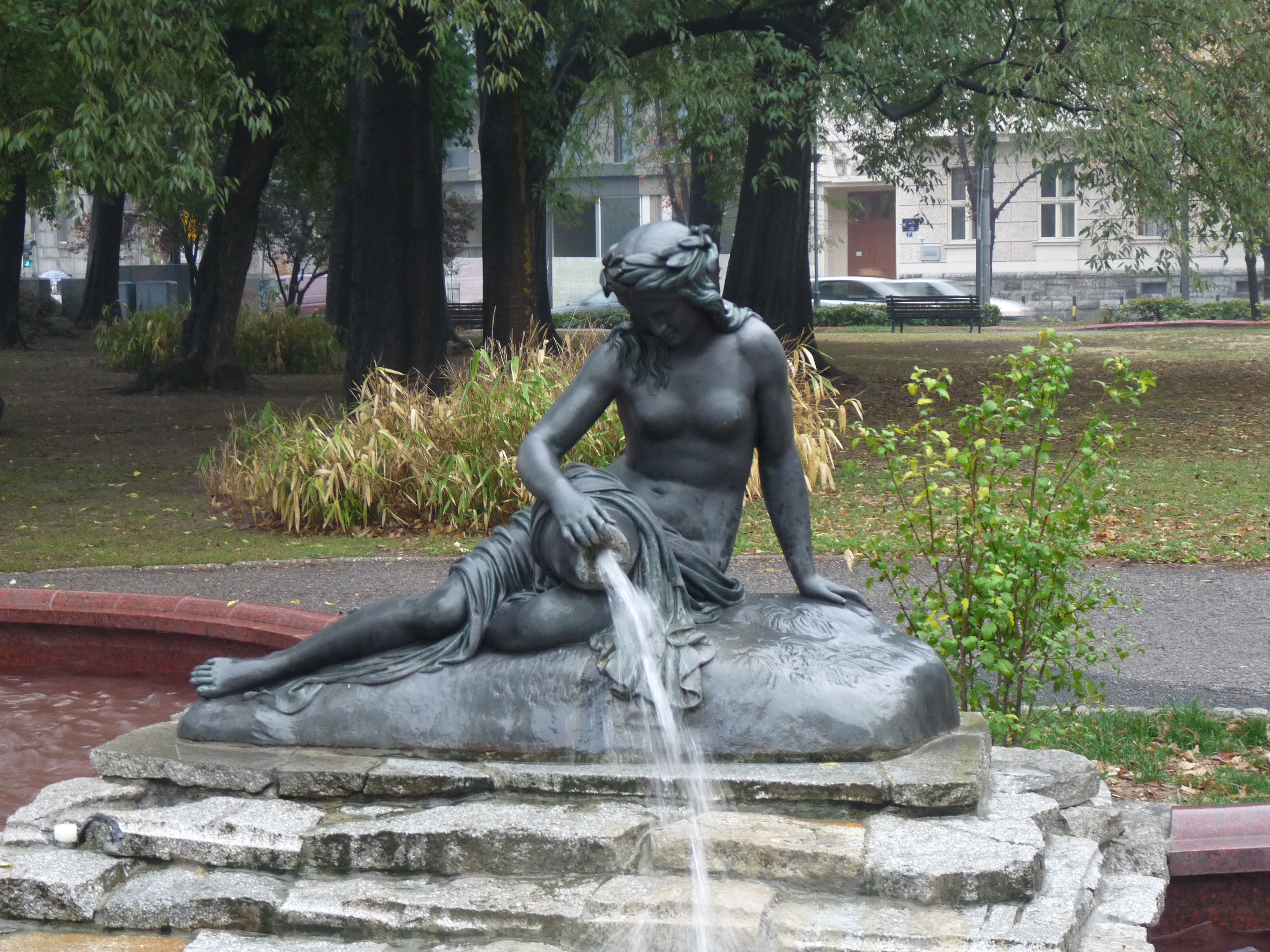 Sculpture "Devojka sa krčagom" in Pionirski Park in Beograd (close), October 13, 2012